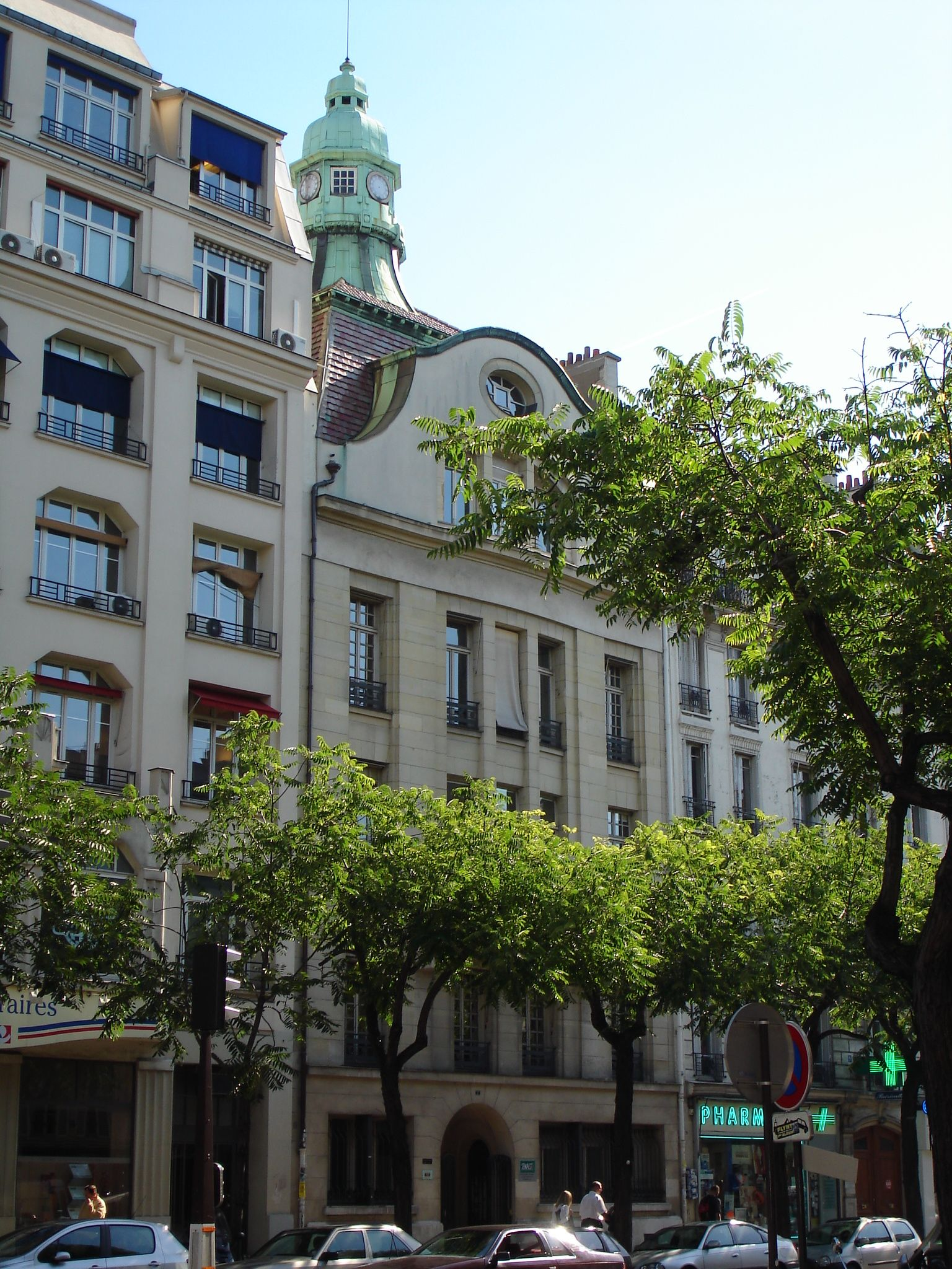 Art nouveau building, 7 avenue de la République, Paris 11, France. - General view